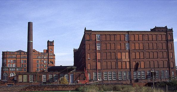 Swan Lane Mills Bolton. Very large steam driven cotton spinning mill complex. No. 3 mill on left and Nos. 1 & 2 double mill on right. Fred Dibnah shortened the chimney.